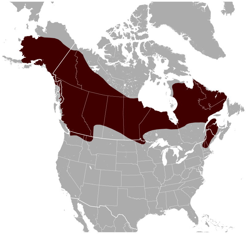 Geographical distribution of the Northern Bog Lemming Synaptomys borealis. The map was created using the Generic Mapping Tools, GMT, version 5.1.1.